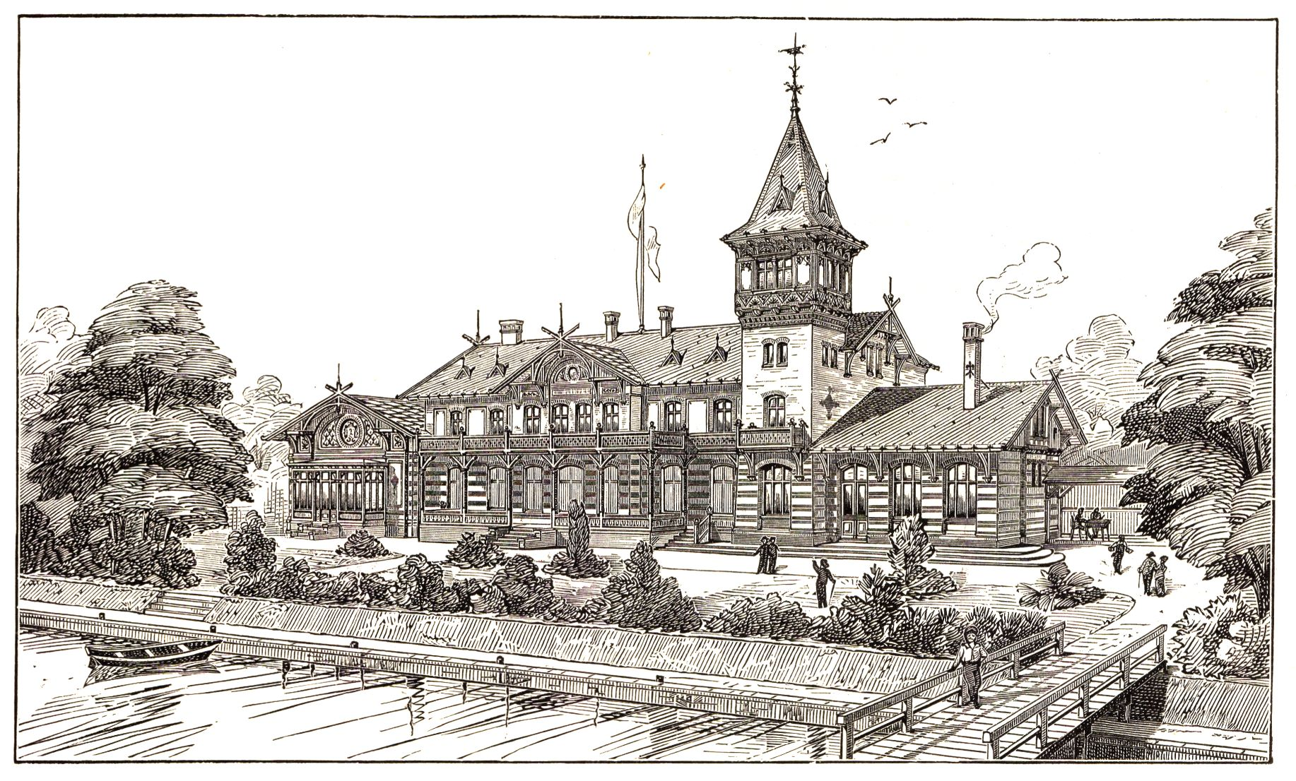 The restaurant Eierhäuschen in Treptow (now in Plänterwald, Treptow-Köpenick, Berlin) in the year 1896.